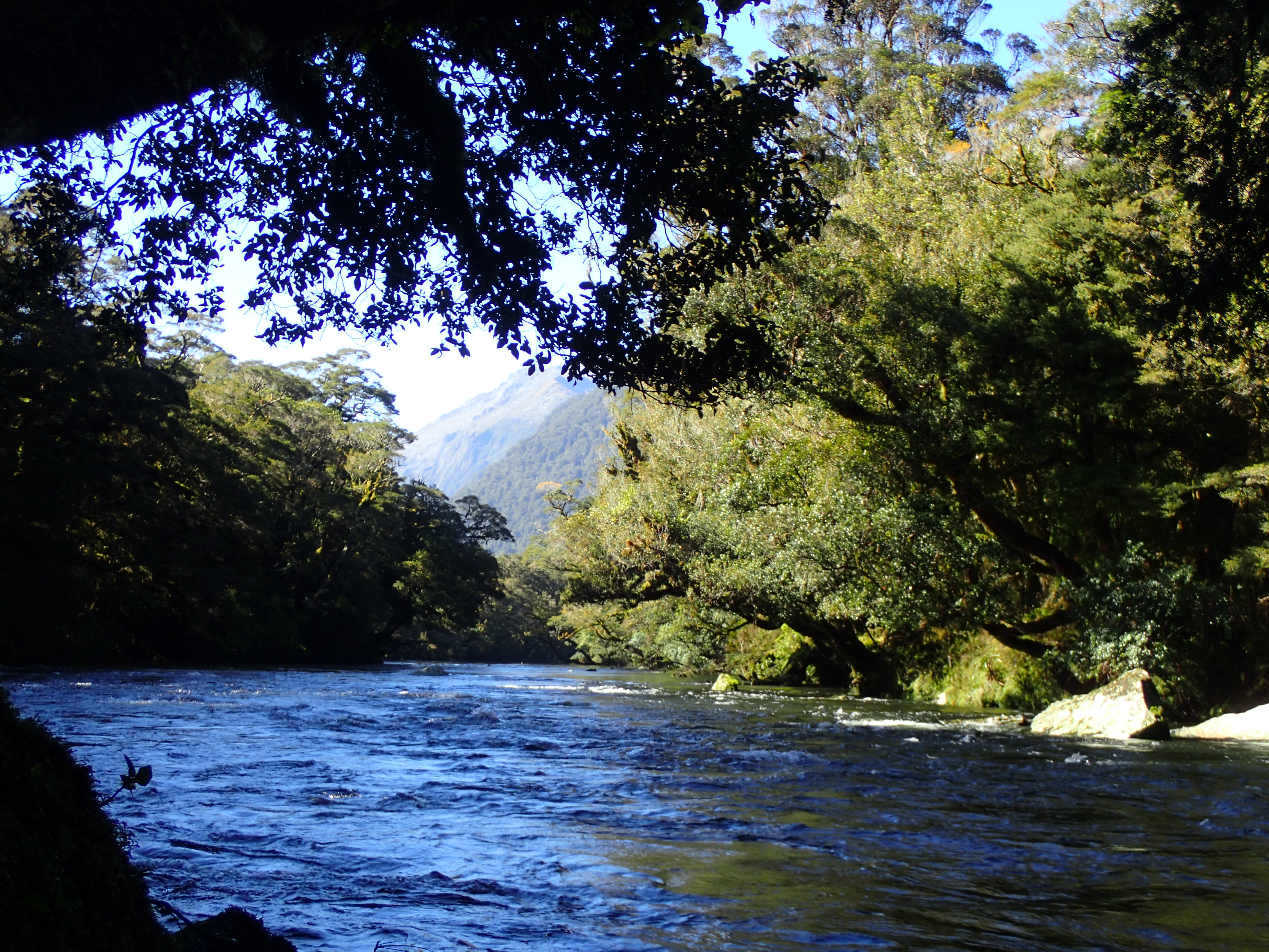 Moeraki River, Middle Reaches, Westland, Aotearoa (New Zealand)